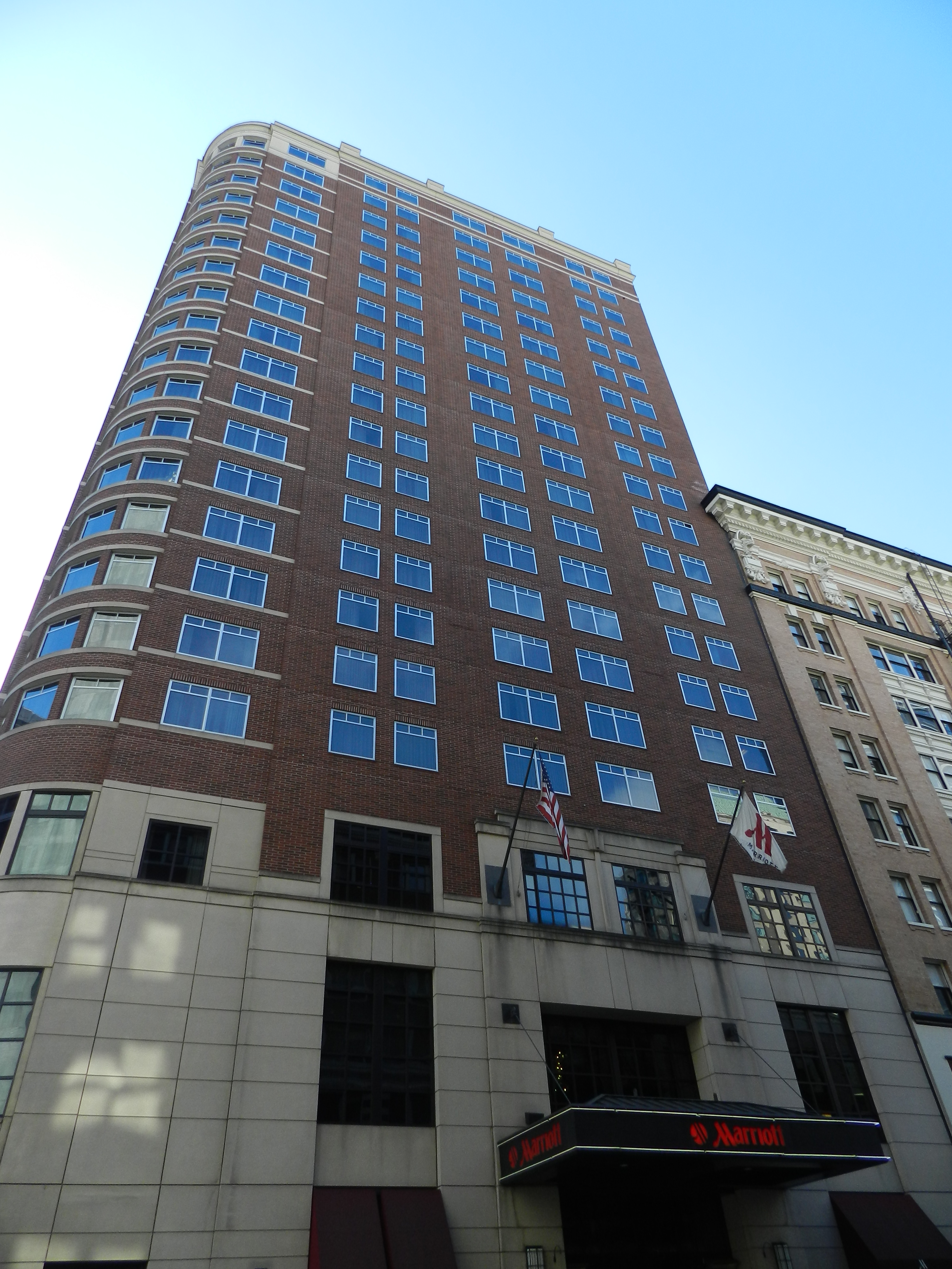 Photo of the Portland Marriott City Center, taken in Portland, Oregon.